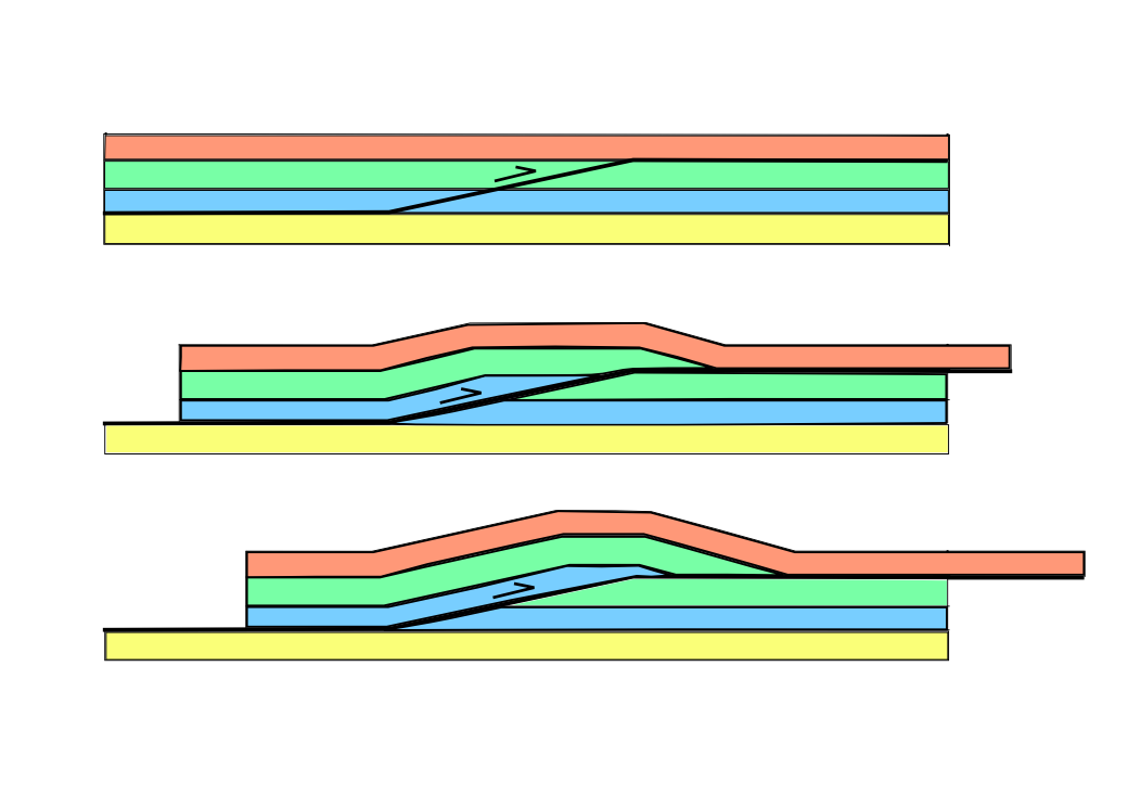 Diagram showing creation of a fault bend fold over a thrust ramp